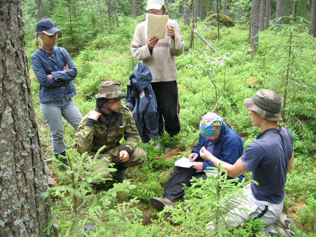 Students natural-geographical faculty on years of experience, 2010